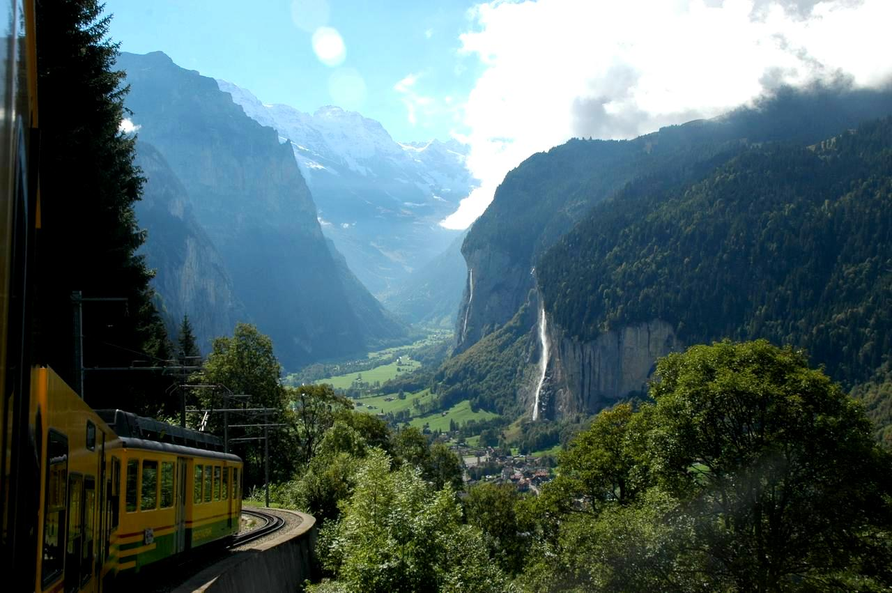 Train going up to Wengen, Bernese Alps